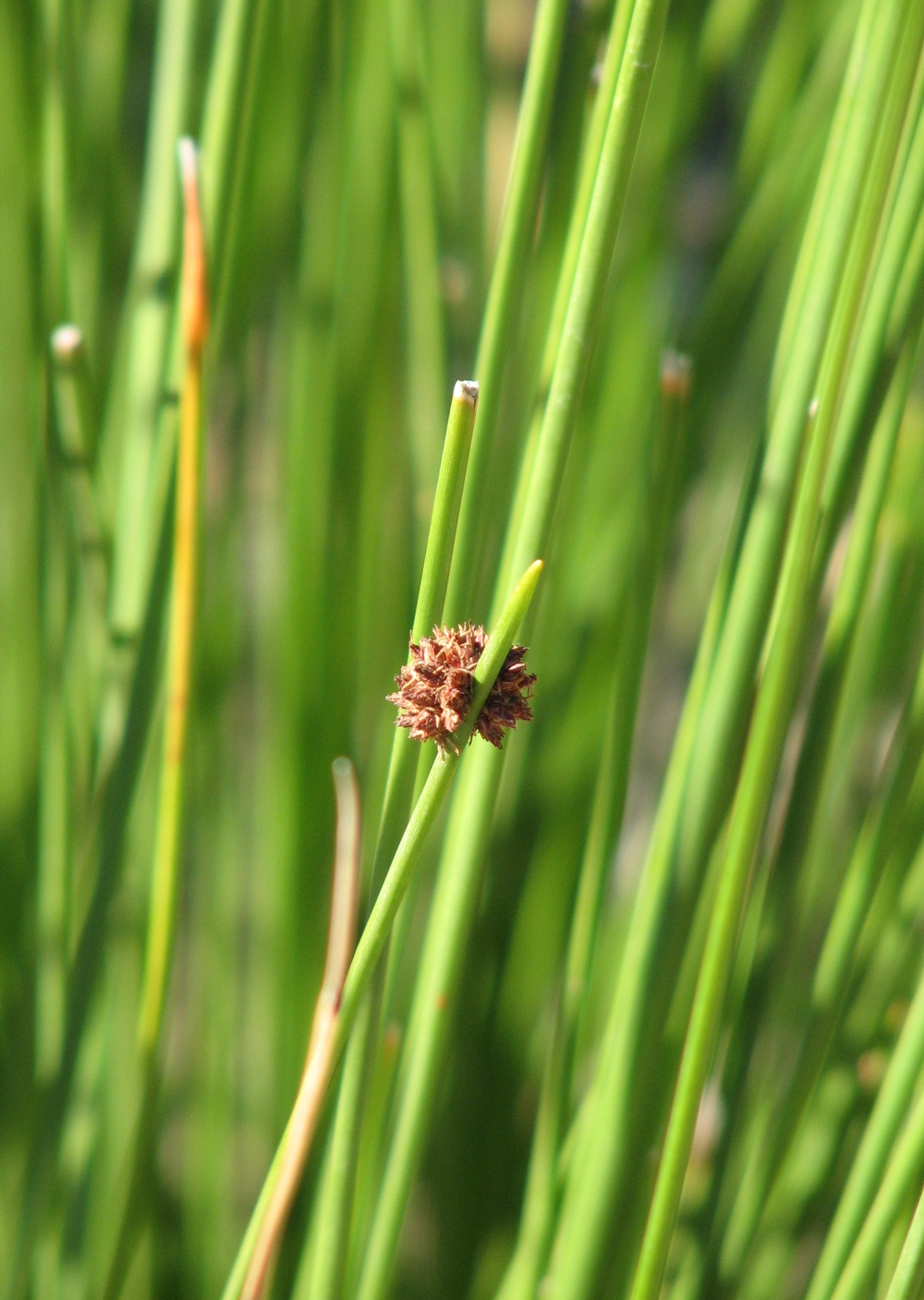 Ficinia nodosa Royal Botanic Gardens Cranbourne, Victoria, Australia